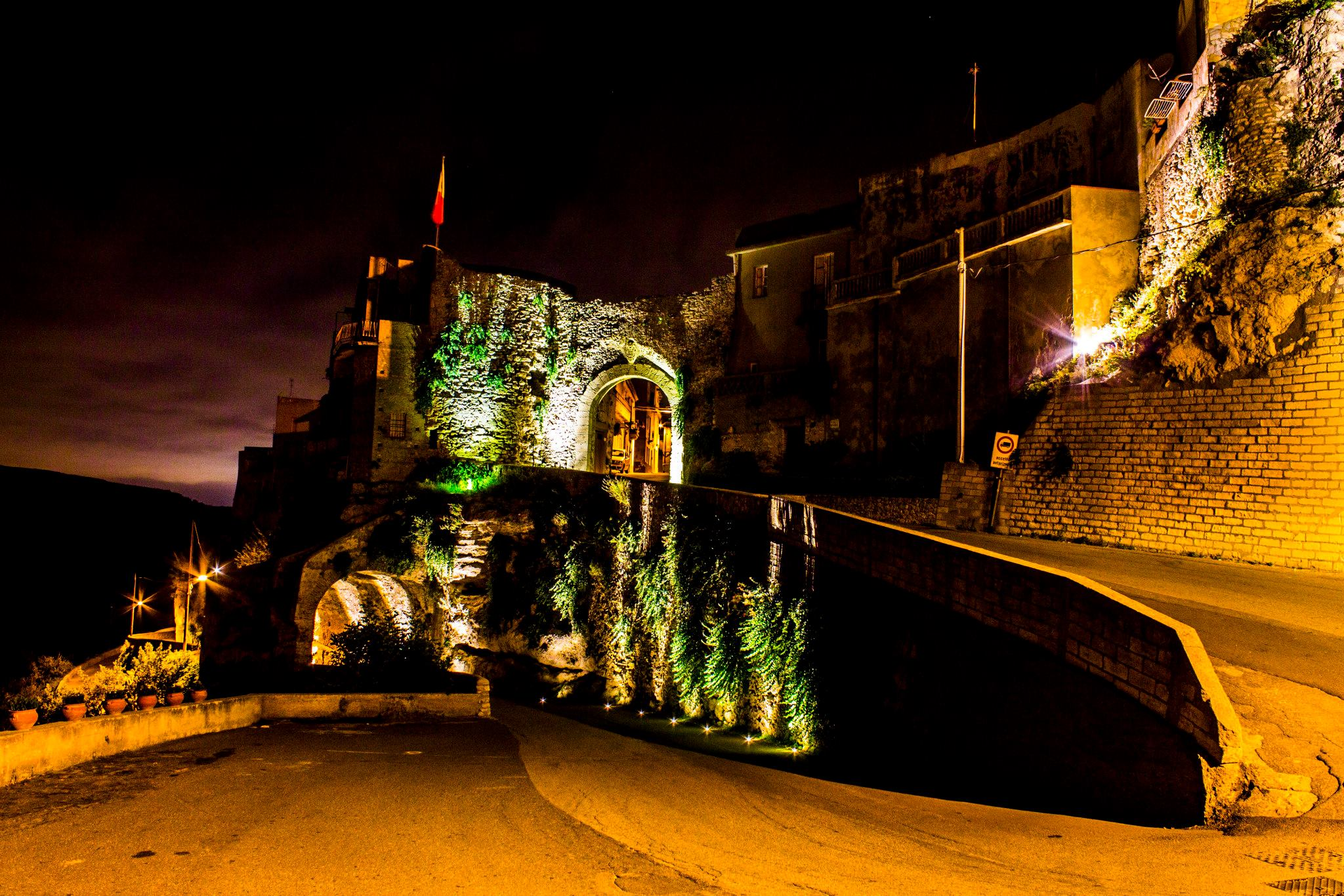 Gourgeous Porta Milazzo By Night